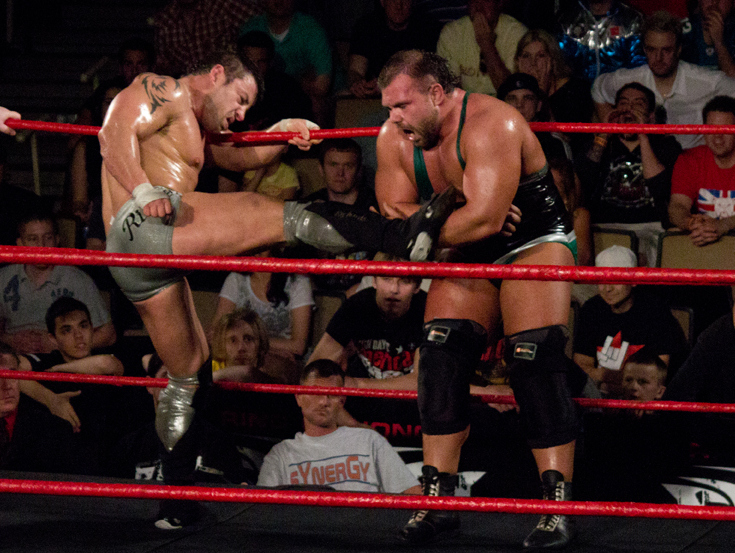 Professional wrestler Davey Richards kicking Michael Elgin at Showdown in the Sun